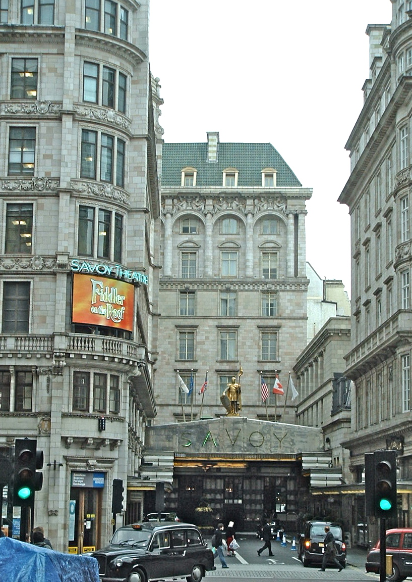 London, Savoy Theatre